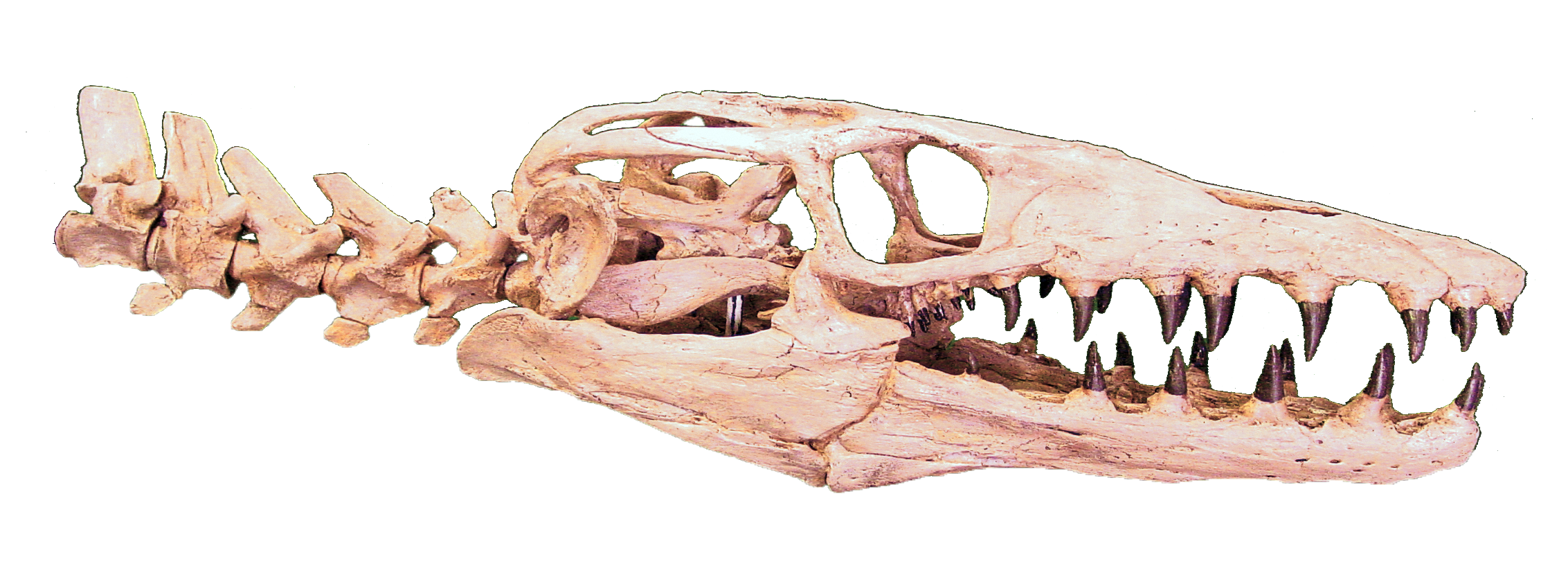 Selmasaurus johnsoni mounted skull in the Rocky Mountain Dinosaur Resource Center in Woodland Park, Colorado